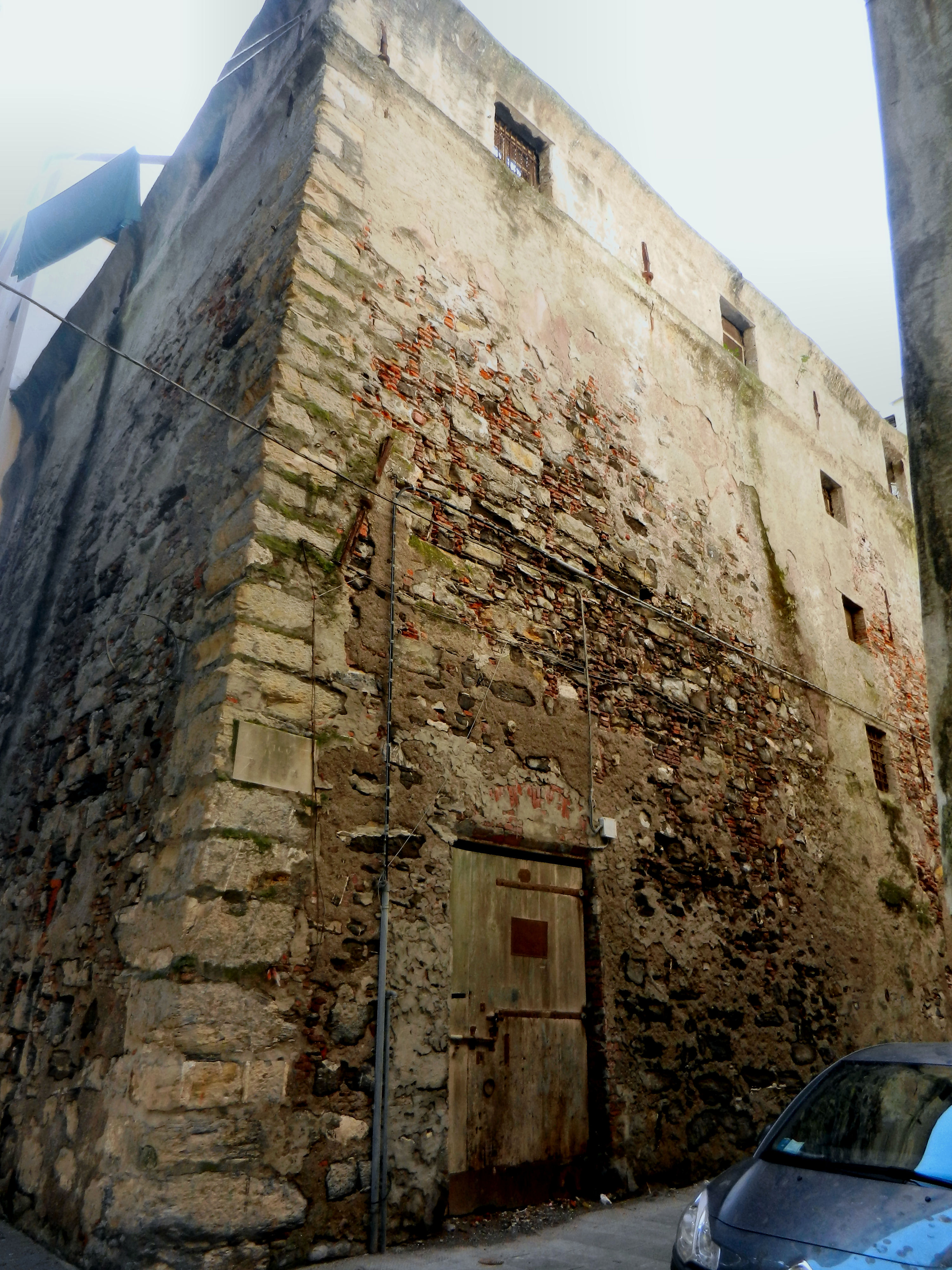 Genoa, Italy, quarter of Molo, ancient salt warehouse